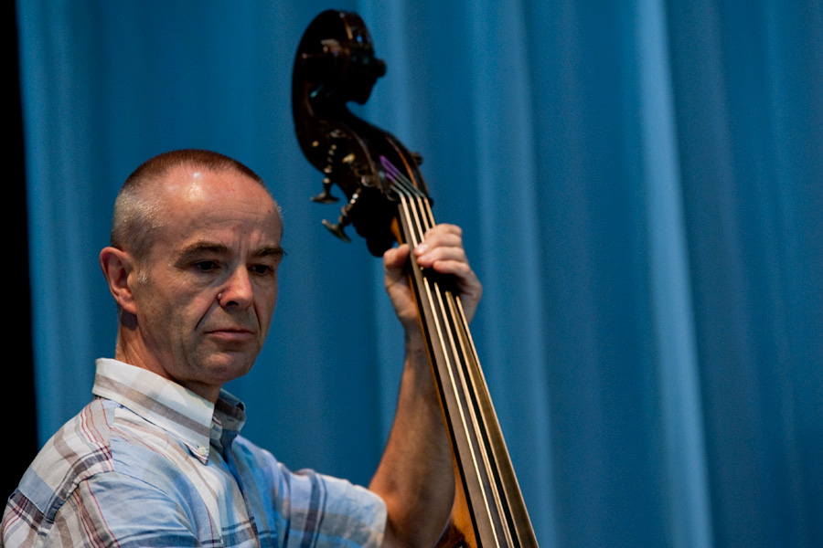 Dieter Manderscheid, moers festival 2010